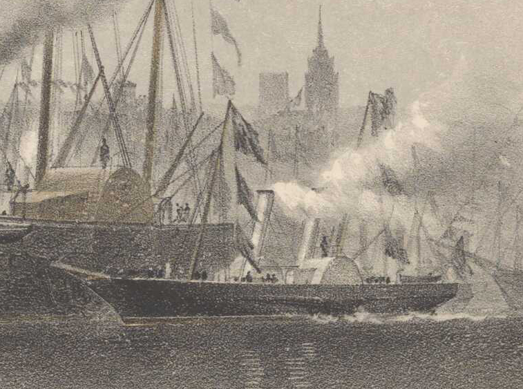 HMS Vivid (detail), alongside HMY Osborne (ship, 1855), Lapwing on the far right, at Gravesend, February 2nd 1858; taken from artwork: H.M. State Yacht Victoria & Albert, leaving Gravesend with their Royal Highnesses the Prince & Princess Frederick William of Prussia, February 2nd 1858... (shows HMS Osborne, Lapwing and Vivid) Signed by artist in plate. unavailable